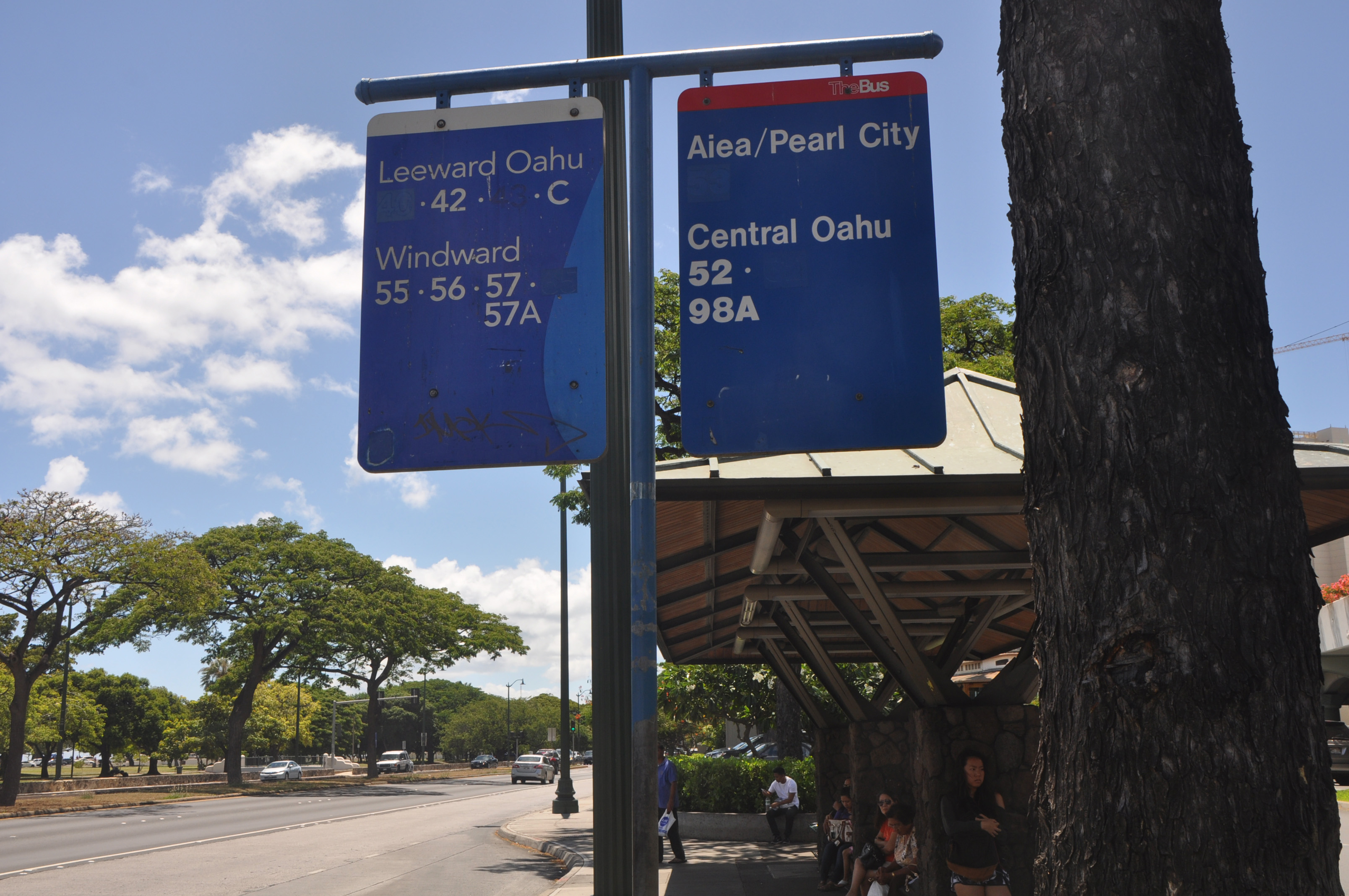 Windward and leeward, used at the TheBus station near Alamoana Center on Oahu, Hawaii, USA